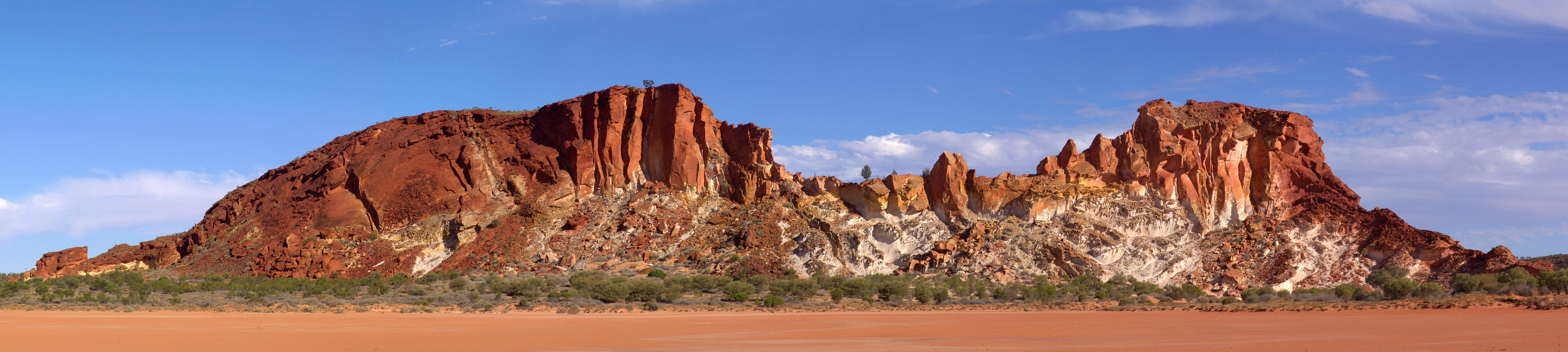 The Rainbow Valley Conservation Reserve, located about 75km south of Alice Springs in the Northern Territory of Australia, is known for its spectacular red sandstone bluffs. Panaroma shot of eight portrait format pictures, taken in the late afternoon.